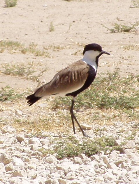 Spurwinged Lapwing - Miqve Israel סיקסק